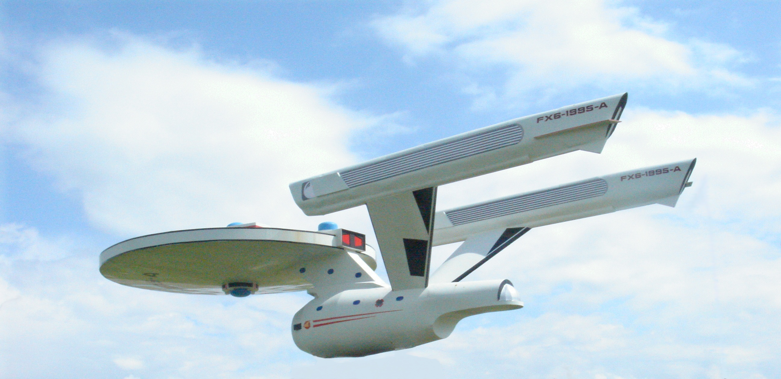 United Federation of Planets ship airborn